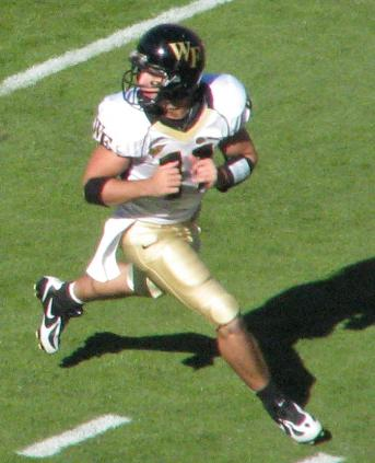 Wake Forest quarterback Riley Skinner after a handoff during the game against Virginia in 2007.